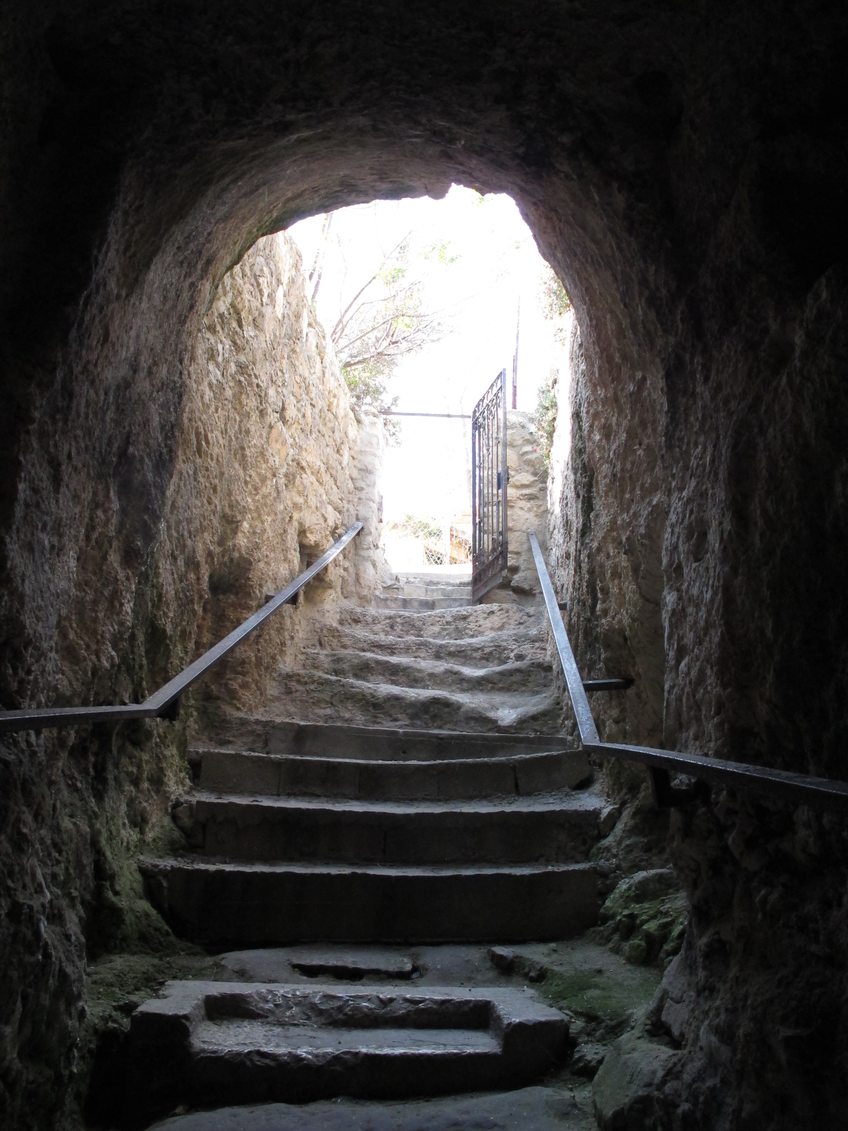 Entrance of the Tomb of the Prophets on the Mount of Olives in Jerusalem.